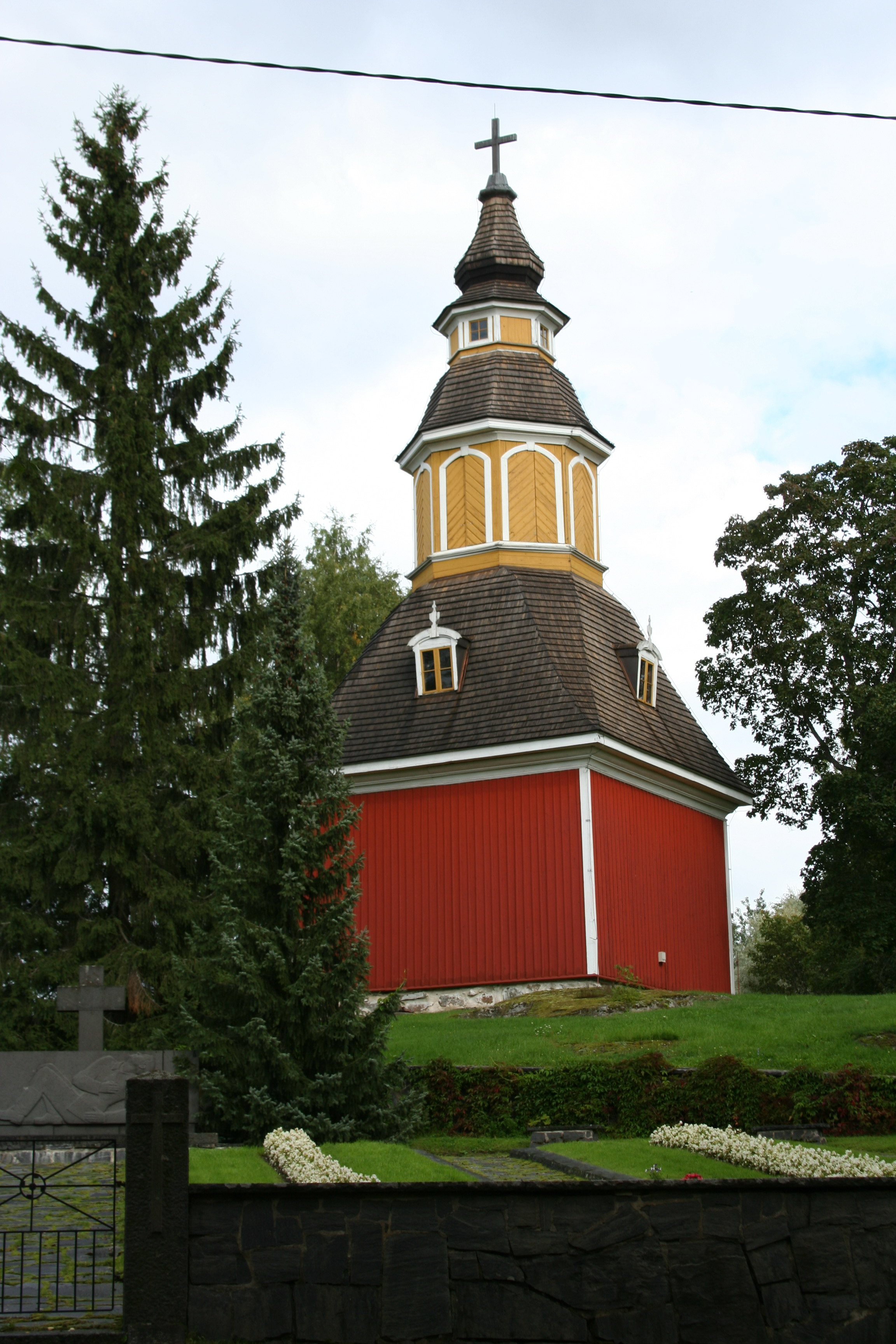 Nurmijärvi church, bell tower, Nurmijärvi, Finland. Completed 1795.